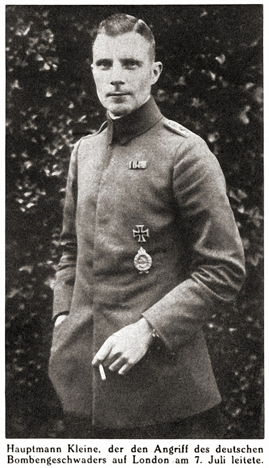 prussian captain Rudolf Kleine